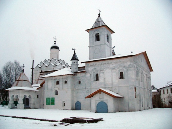 Alexandro-Svirsky Monastery